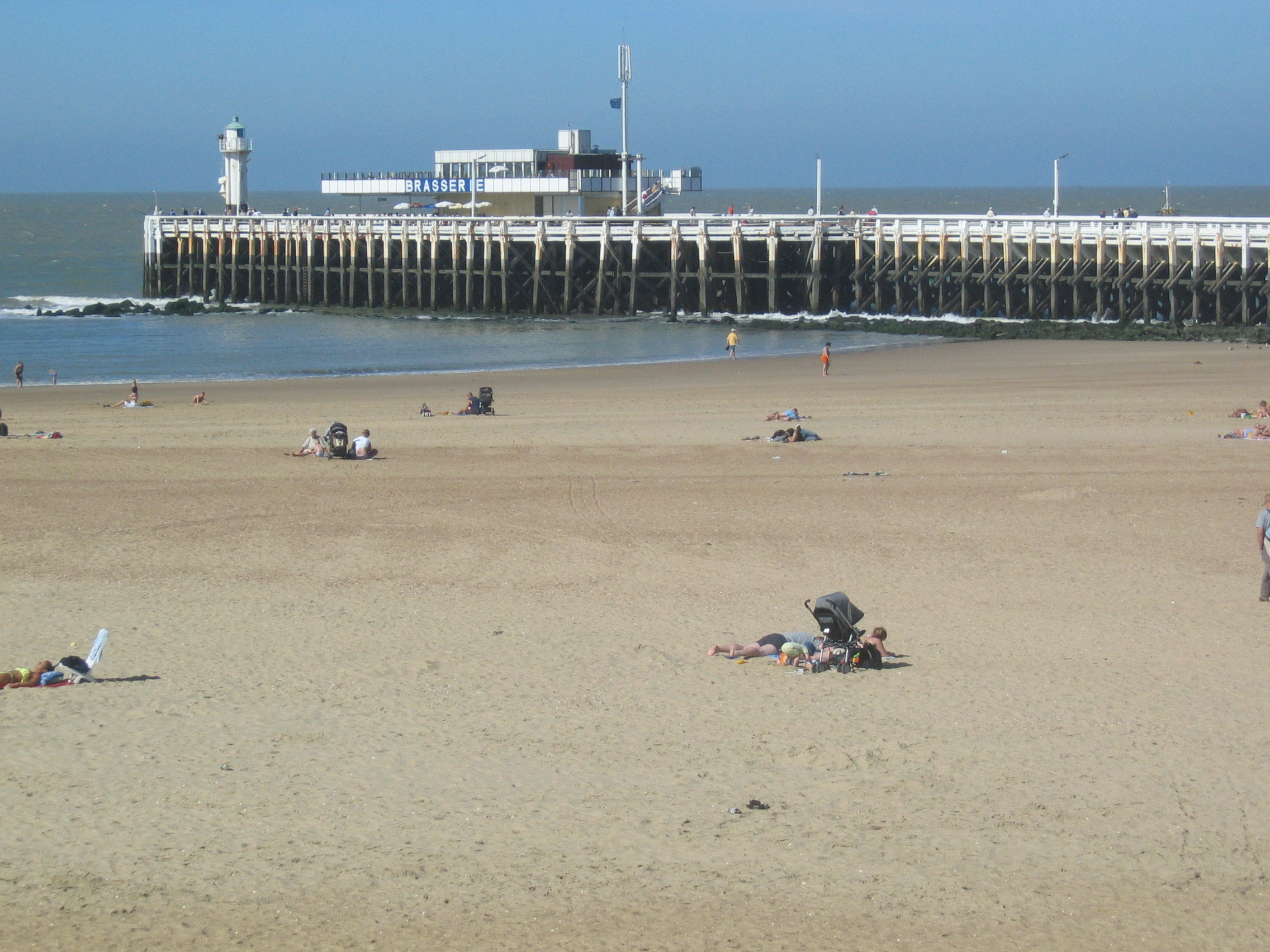 Ostend - the beach at the pier.